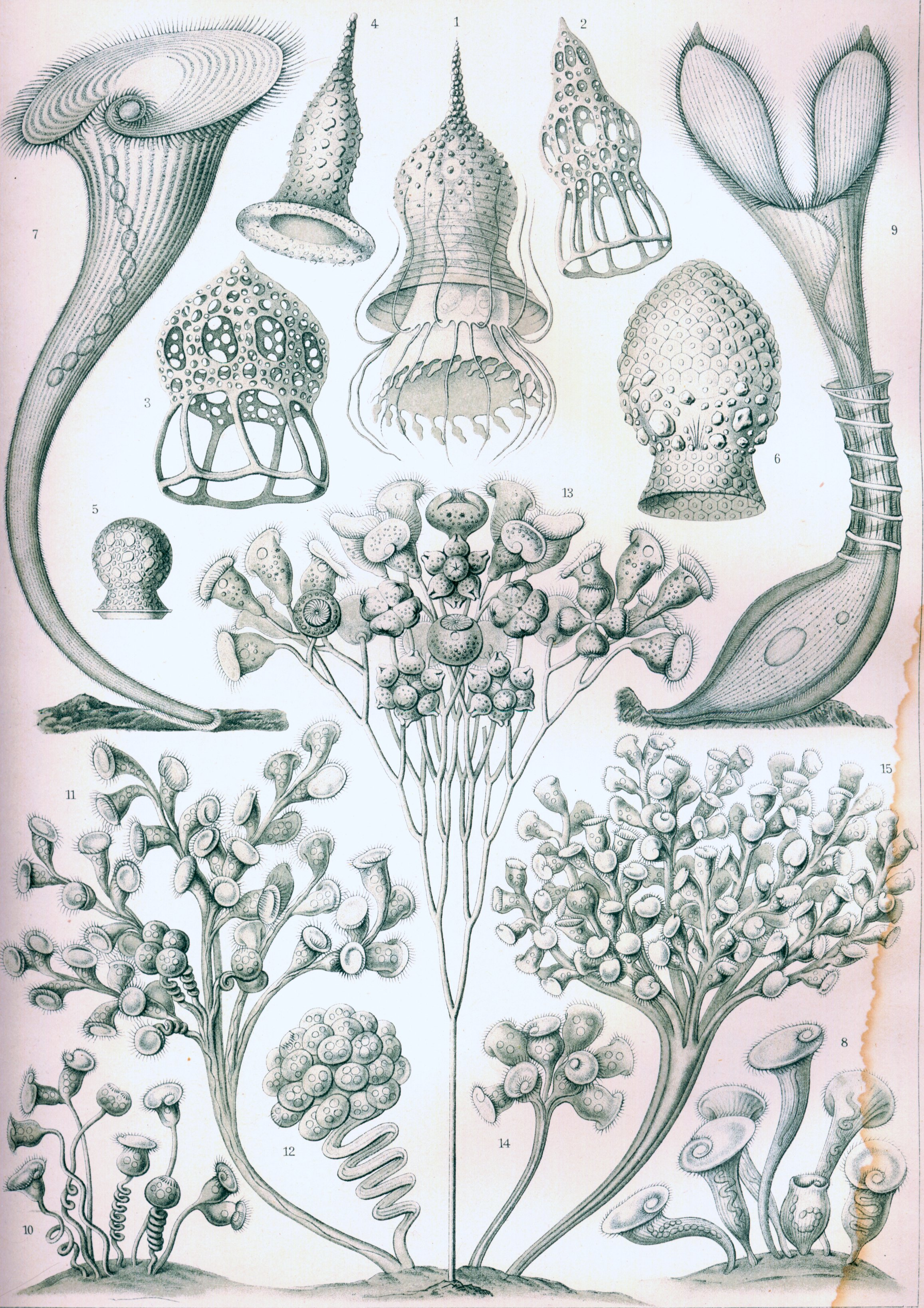 Enlarge image for index to numbers. Codonella campanella (Haeckel) = Tintinnopsis campanula (Ehrenberg, 1840), shell with individual inside (genus Tintinnopsis) Dictyocysta tiara (Haeckel) = Dictyocysta elegans Ehrenberg, 1854, shell (genus Dictyocysta) Dictyocysta templum (Haeckel) = Dictyocysta elegans Ehrenberg, 1854, shell Tintinnopsis campanula (Claparède) = Tintinnopsis campanula (Ehrenberg, 1840), shell Cyttarocylis cistellula (Fol) = Codonaria cistellula (Fol, 1884), shell (genus Codonaria) Petalotricha galea (Haeckel) (non Haeckel, 1873: preoccupied) = Codonella aspera Kofoid & Campbell, 1929, shell (genus Codonella) Stentor polymorphus (Ehrenberg) = Stentor polymorphus (O.F.Müller, 1773), individual (genus Stentor) Stentor polymorphus (Ehrenberg) = Stentor polymorphus (O.F.Müller, 1773), group Freia ampulla (Claparède) (non O.F.Müller, 1786: preoccupied) = Ascobius claparedi Hadzi, 1951, individual (genus Ascobius) Vorticella convallaria (Ehrenberg) = Vorticella convallaria Linnaeus, 1758, group (genus Vorticella) Carchesium polypinum (Ehrenberg) = Carchesium polypinum Linnaeus, 1758, colony, relaxed (genus Carchesium) Carchesium polypinum (Ehrenberg) = Carchesium polypinum Linnaeus, 1758, colony, contracted Epistylis flavicans (Ehrenberg) = Campanella umbellaria Linnaeus, 1767, colony (genus Campanella) Zoothamnium arbuscula (Ehrenberg) = Zoothamnium arbuscula Ehrenberg, 1839, young colony Zoothamnium arbuscula (Ehrenberg) = Zoothamnium arbuscula Ehrenberg, 1839, old colony